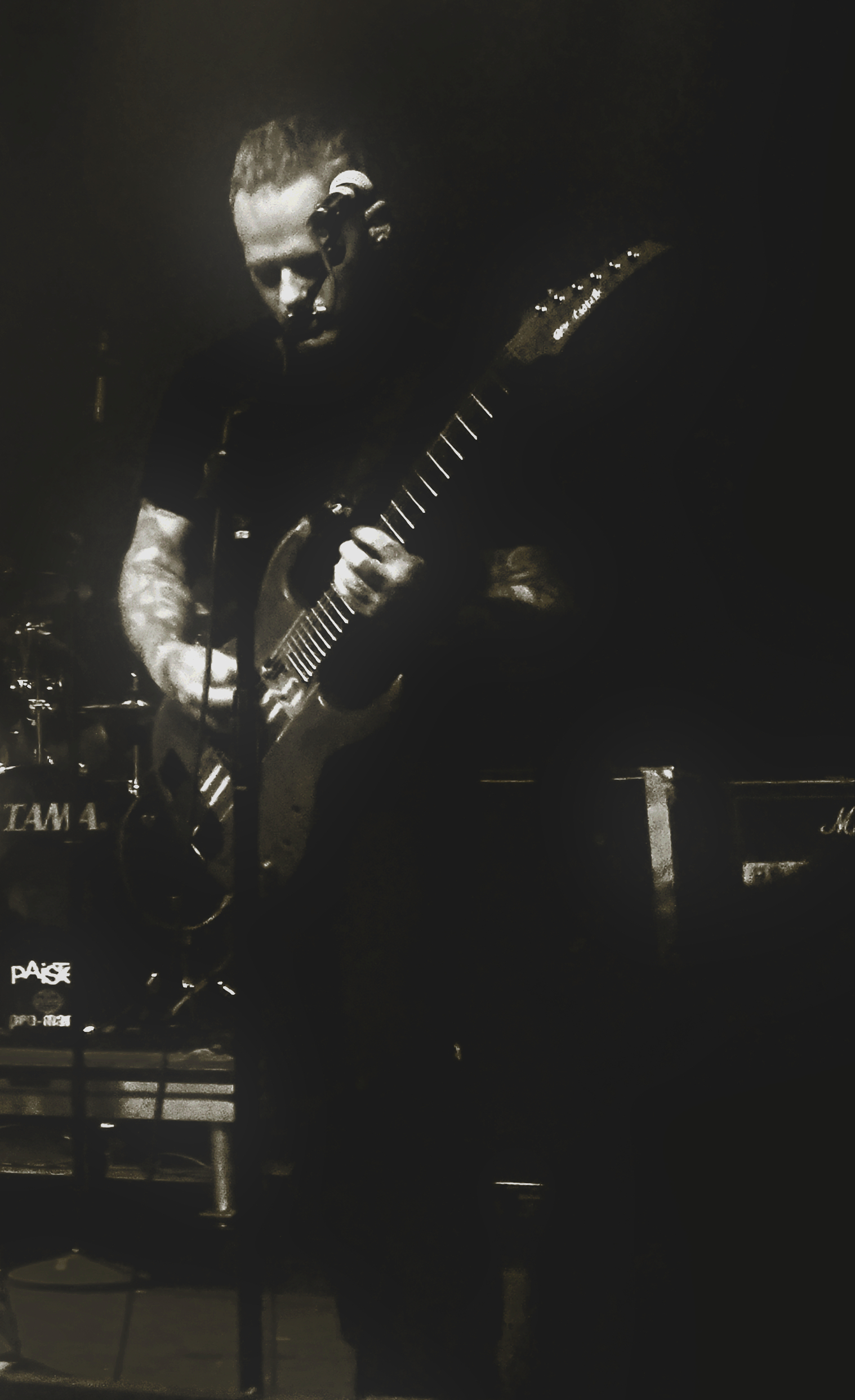 At the Observatory Theater in Santa Ana, CA on August 10, 2017